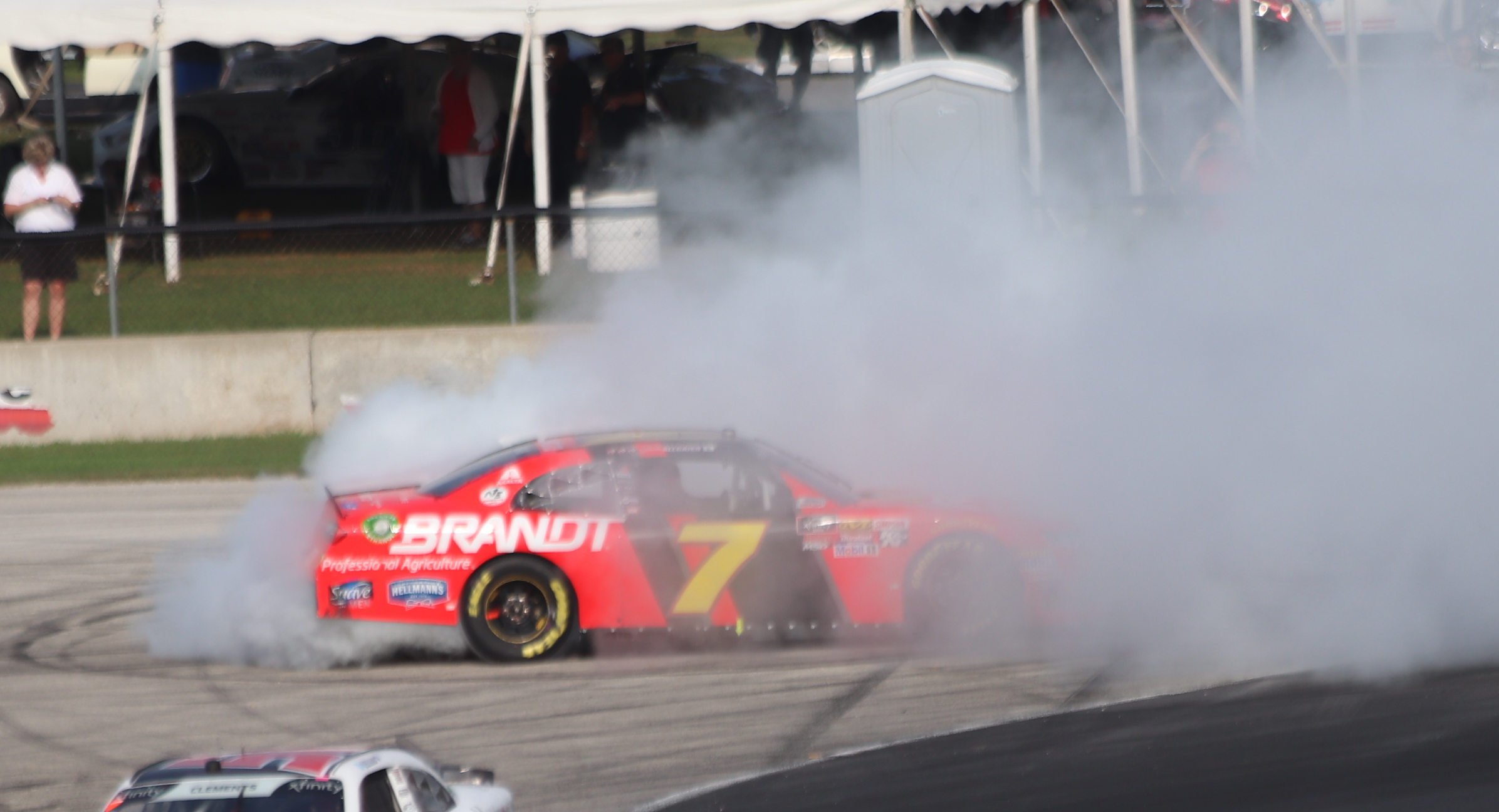 NASCAR driver Justin Allgaier does burnouts in Turn 5 after winning the 2018 Johnsonville 180 NASCAR Xfinity Series race at Road America.